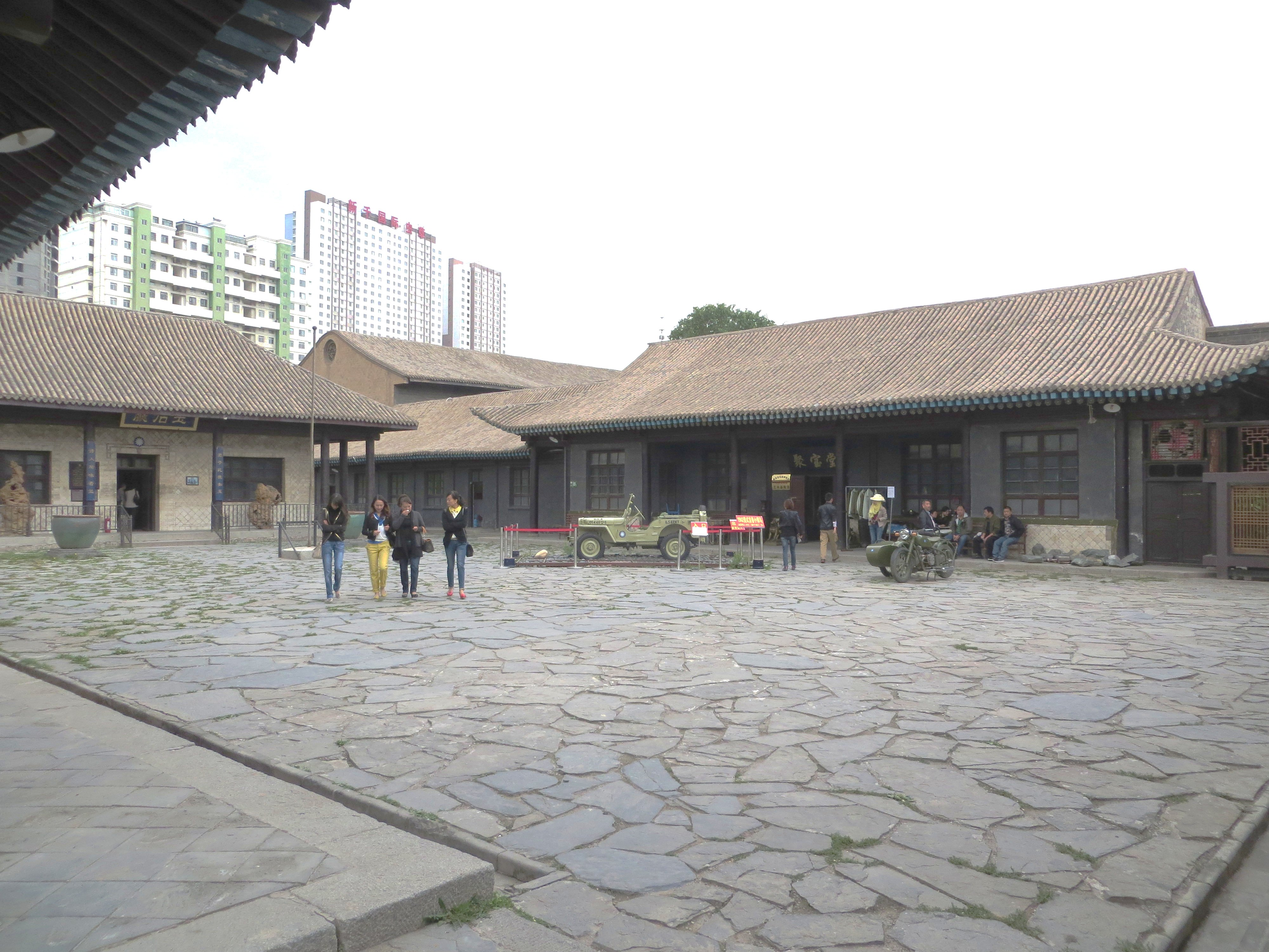 1st yard of the former (before 1949) Ma Bufang residence, today a museum, at Xinging, QInghai province.